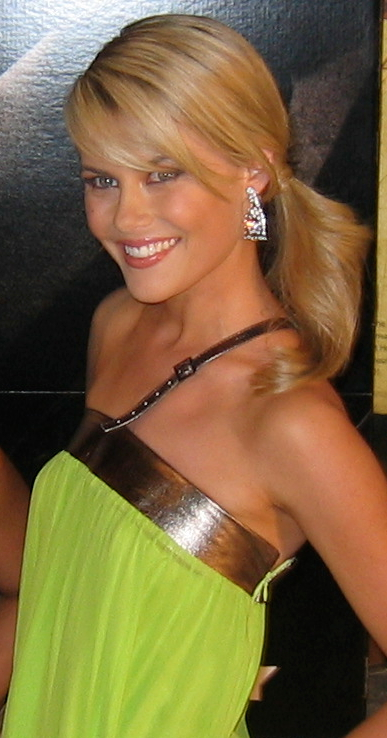 A picture Rachael Taylor at the premiere of Transformers in Sydney, Australia; cropped and balanced